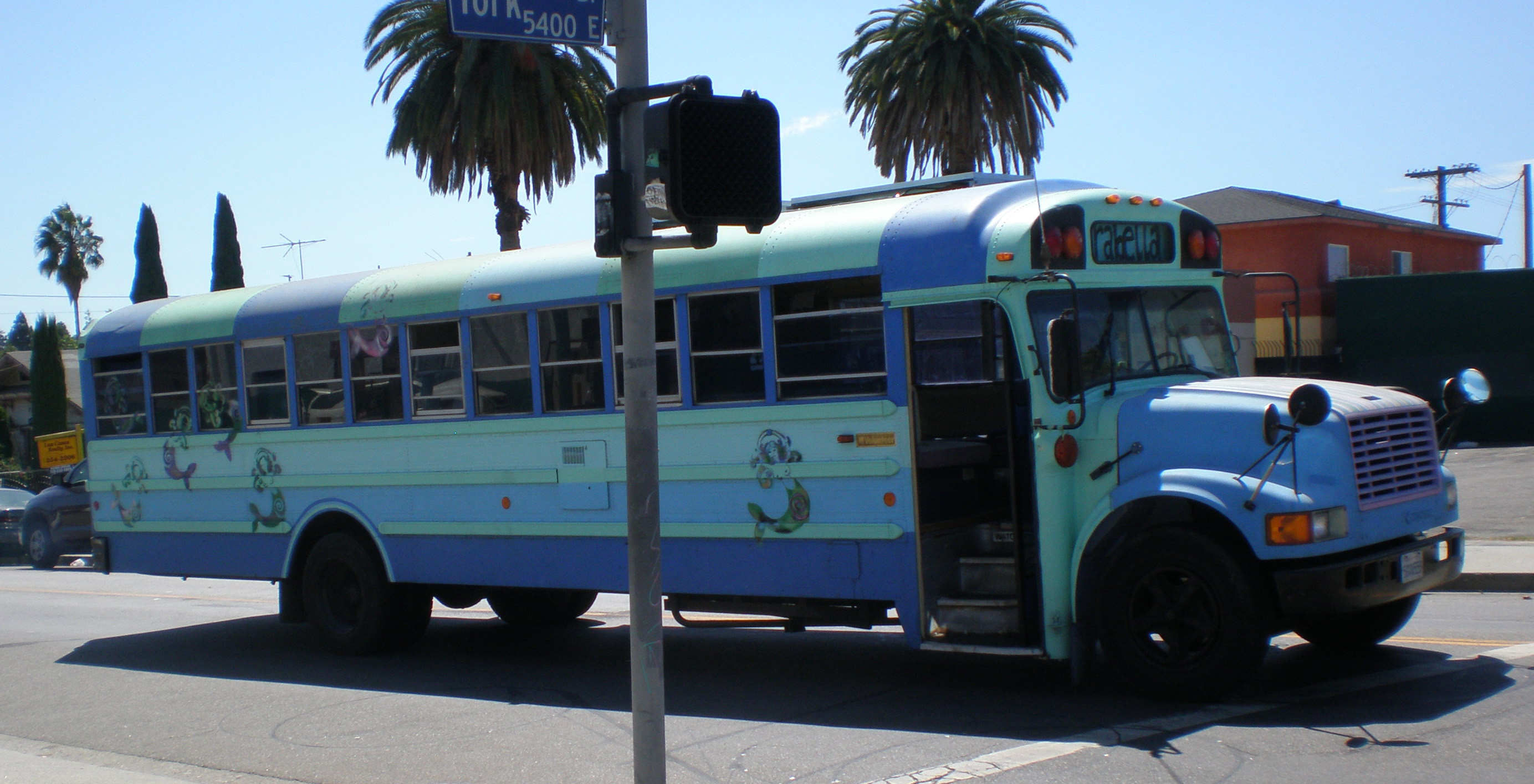 Shot from Sheila Nicholl's bus "Arabelle" stopping at a crossing in L.A.